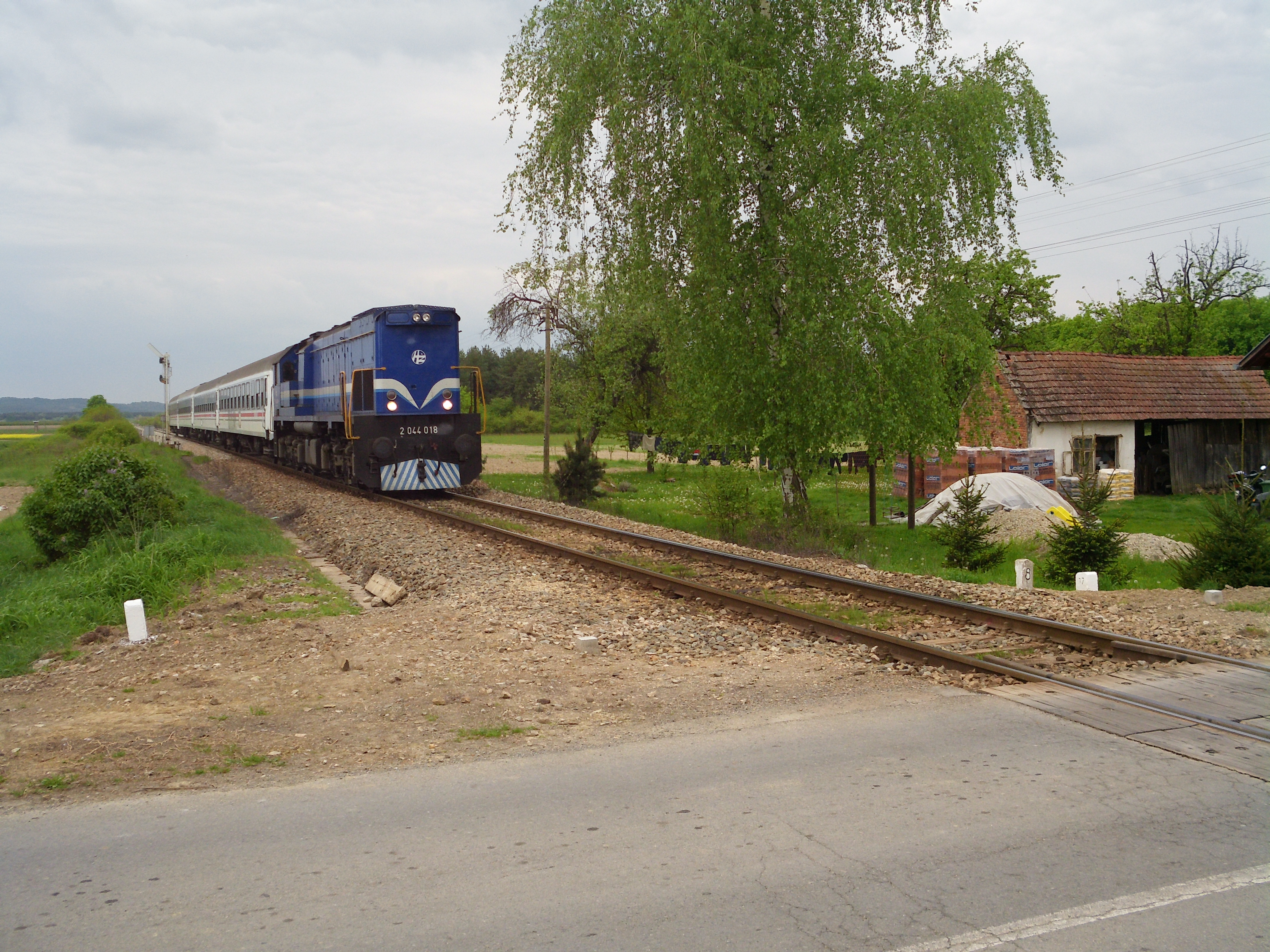 Train from Vitrovitica to Osijek in Croatia approaching the stop & junction of Pčelić.